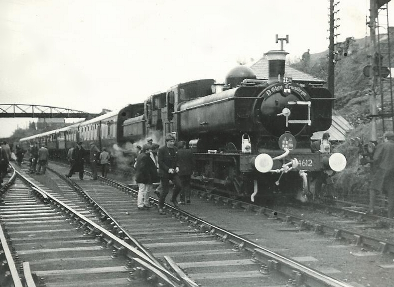 GWR Collett "57xx" Class 0-6-0PT's No.9675 & 4612 on the "Y Glyn Crwydryn" ("Valley Wanderer") special awaiting the right of way at Pontardawe on the Coelbren (Junction) - Pontardawe- Swansea (St. Thomas) - Swansea (east Dock) - Swansea (High St) leg, Summer 1965. Clearly, the days of Health & Safety have yet to arrive. Scanned photograph taken with a Halina 35X Super.